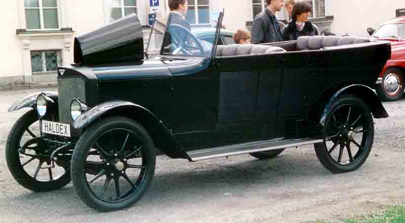 Thulin A20 Phaeton 1920